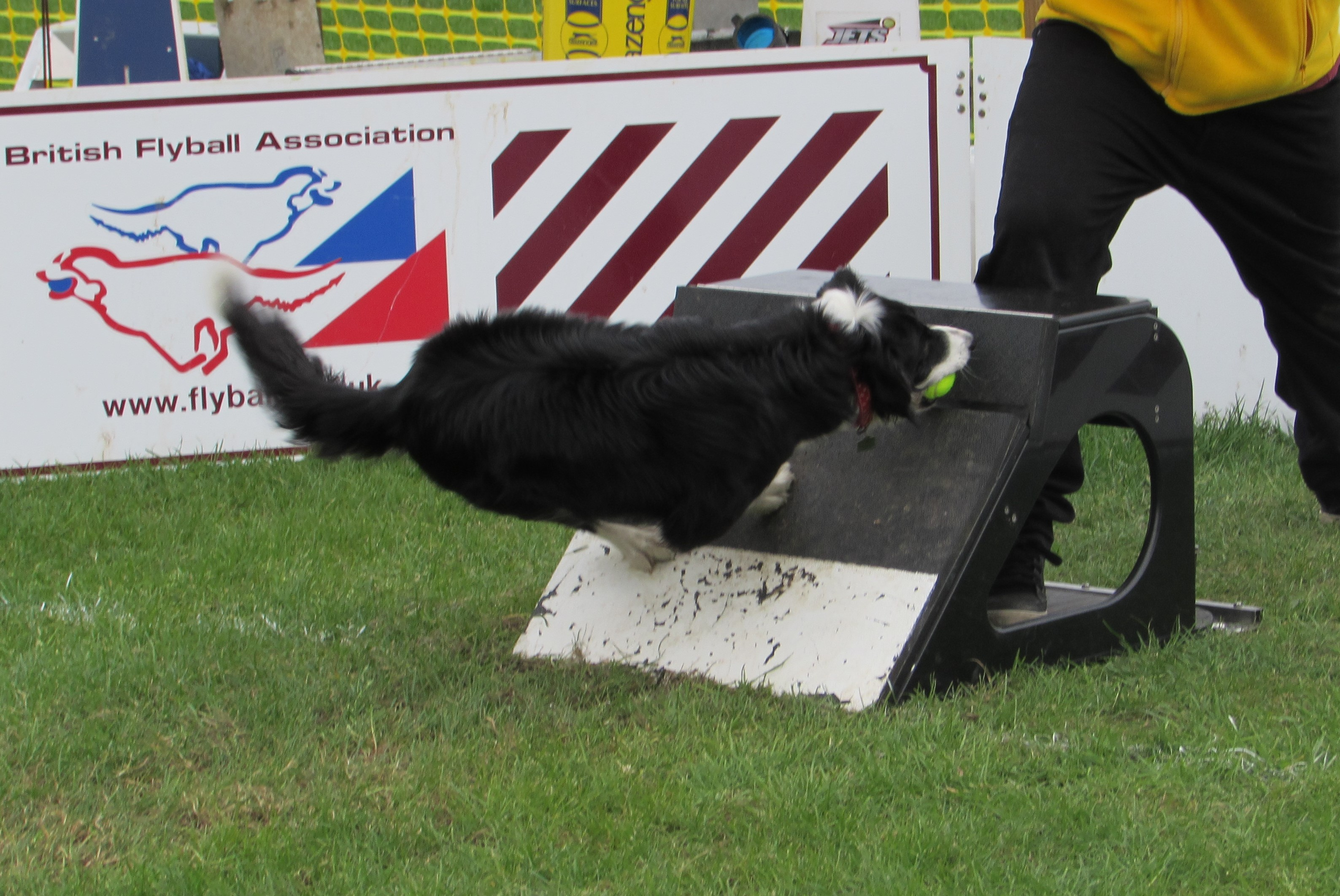 Flyball Box turn